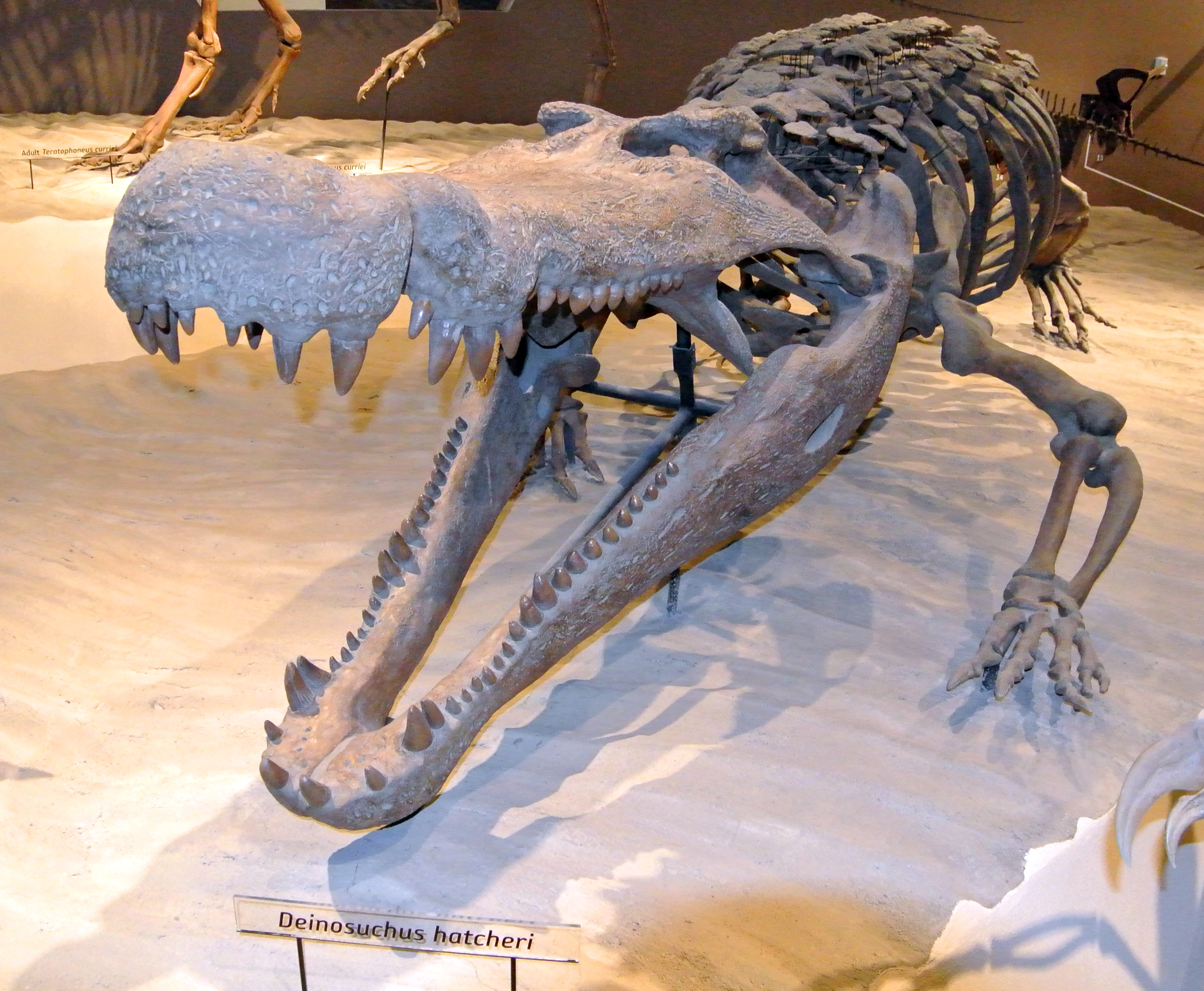 Deinosuchus hatcheri at the Natural History Museum of Utah.